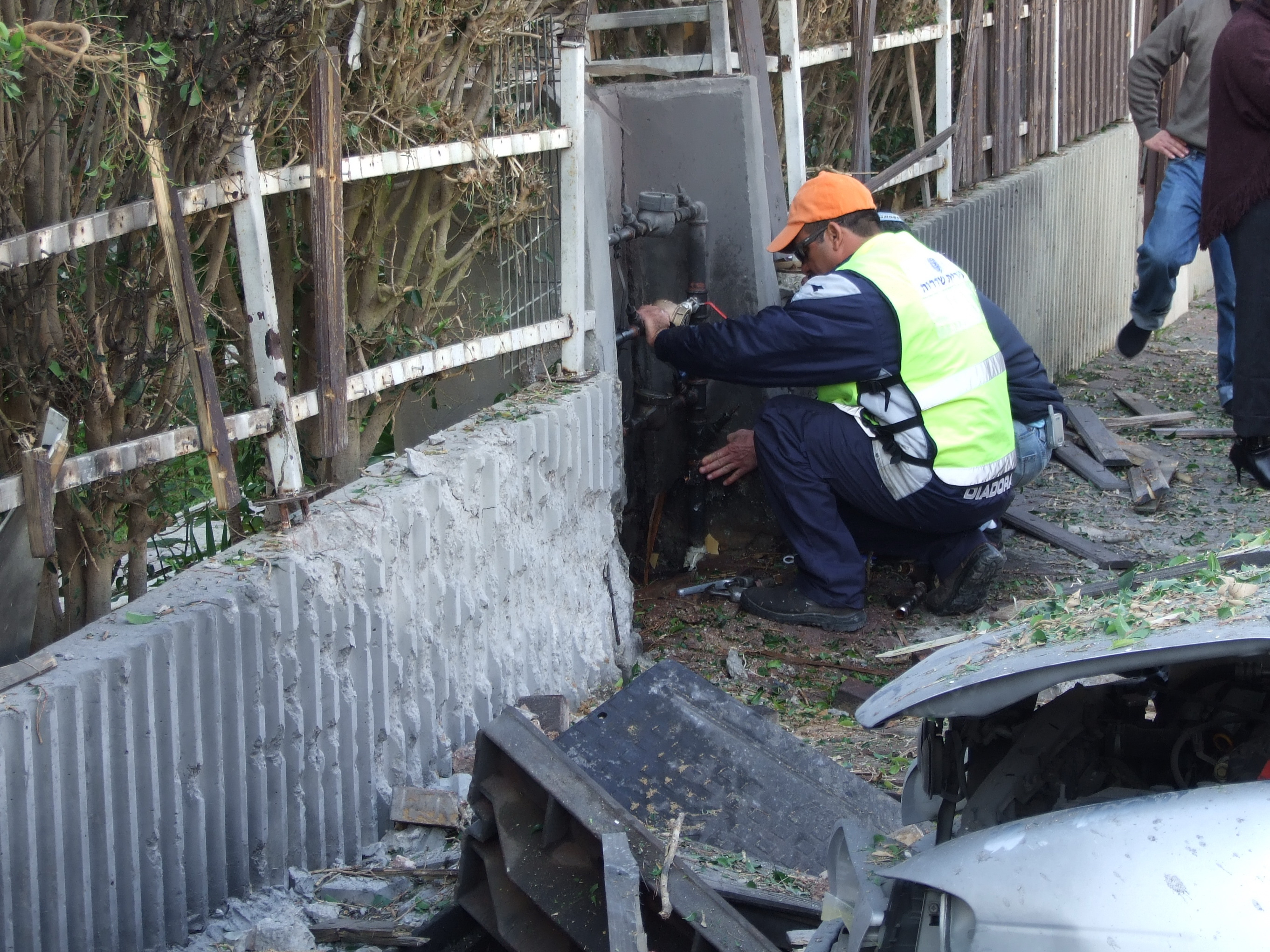 Municipal worker repairing water pipe in Sderot, damaged by Palestinian Qassam rocket on Dec. 29, 2008.